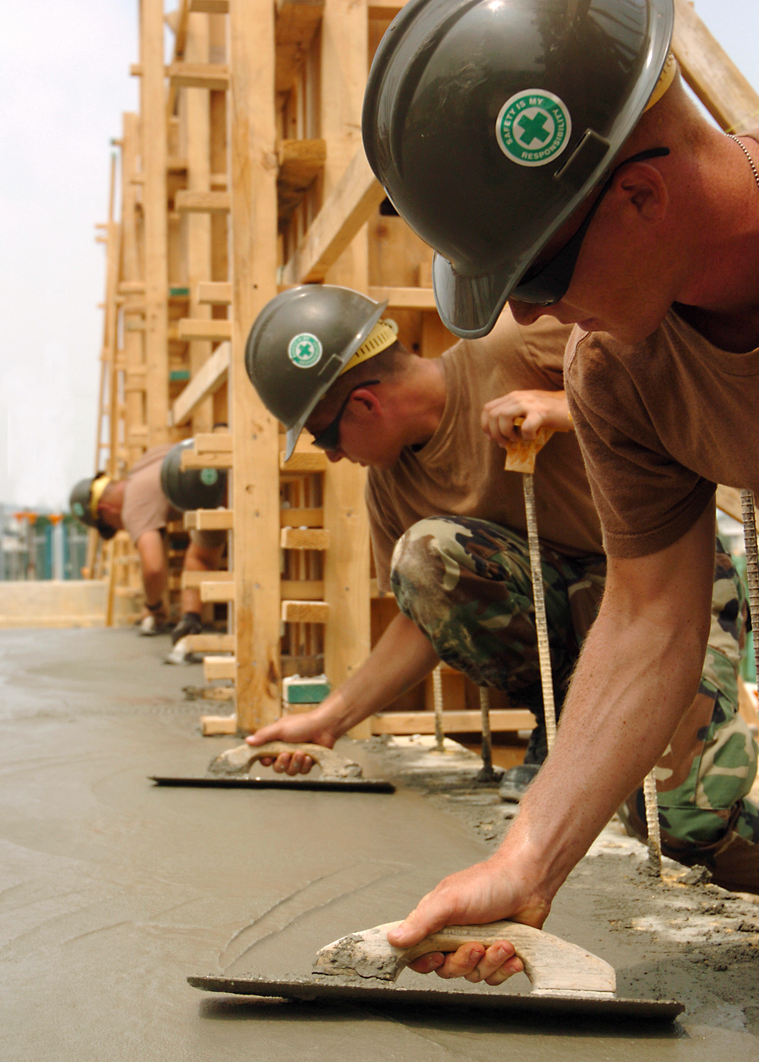 Camp Shields, Okinawa (July 5, 2005) - Builder Constructionman Guthrie Kees and Utilitiesman 3rd Class Robert Jones use trowels to smooth freshly poured concrete for a new dispatch office for Naval Mobile Construction Battalion Seven Four (NMCB-74). The Seabees of NMCB-74 are currently deployed to Okinawa, Japan for a regularly scheduled deployment. U.S. Navy photo by Photographer's Mate 2nd Class Eric Powell (RELEASED)